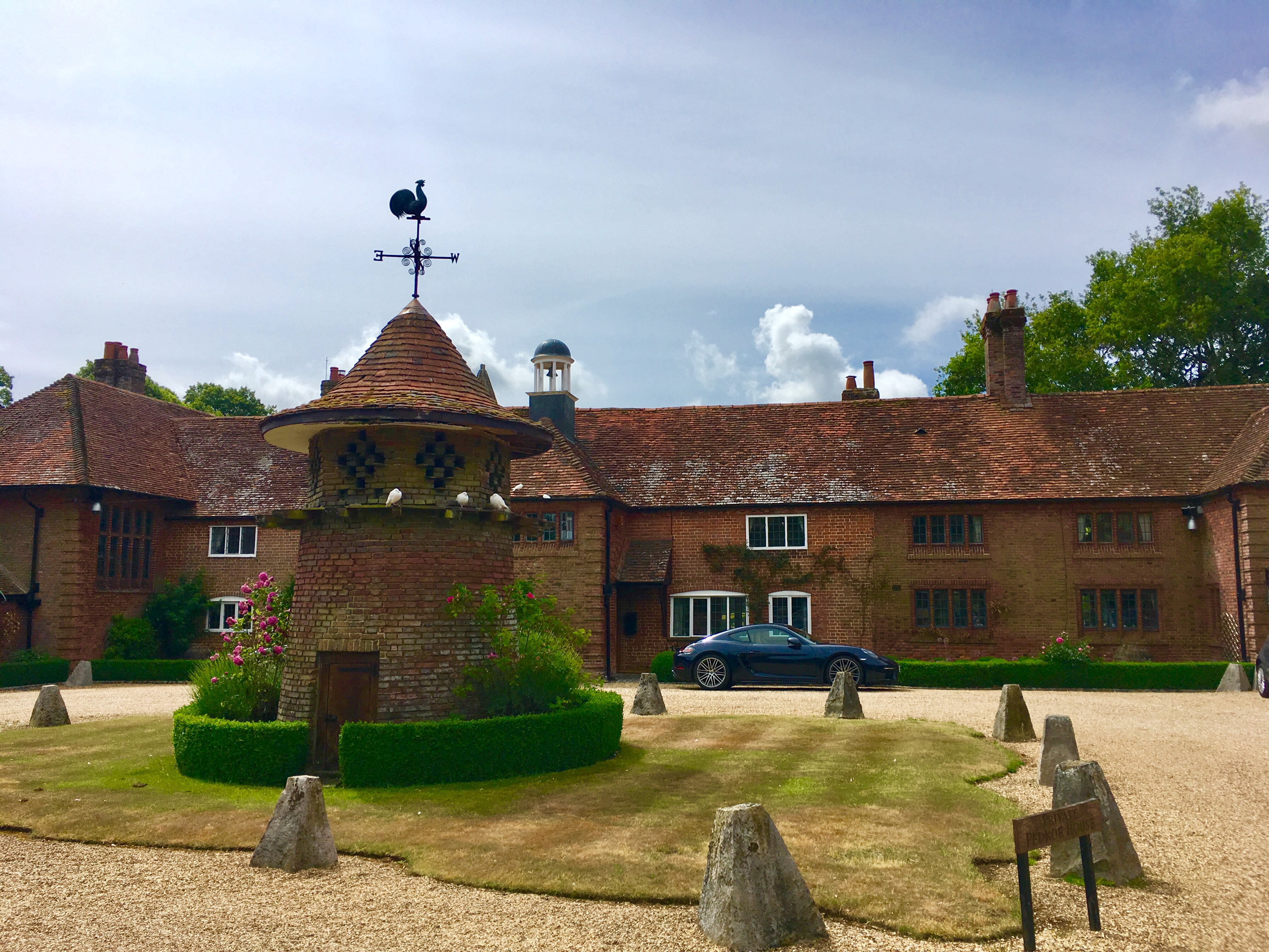 Pednor House and Dovecote, Pednor, May 2020 Wikidata has entry Q26417944) with data related to this item. Wikidata has entry Q26456478 with data related to this item.